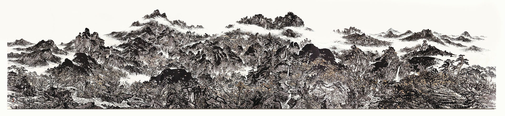 One of the masterpieces of the 1993 work, Ju Wang Un Su Do, artist Yasong Lee Won Jwa